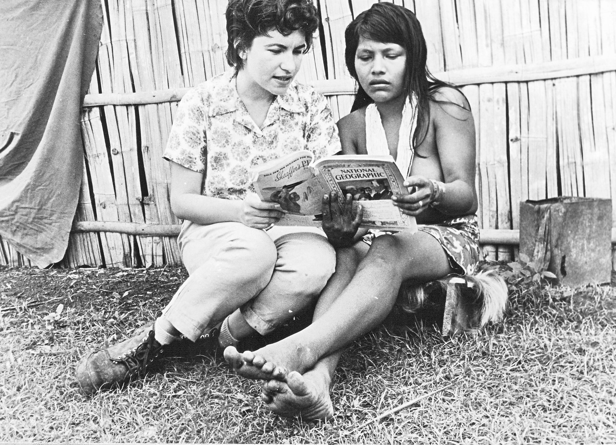 Dr Reina Torres de Arauz, panamanian anthropologist in the Trans Darien expedition in 1958